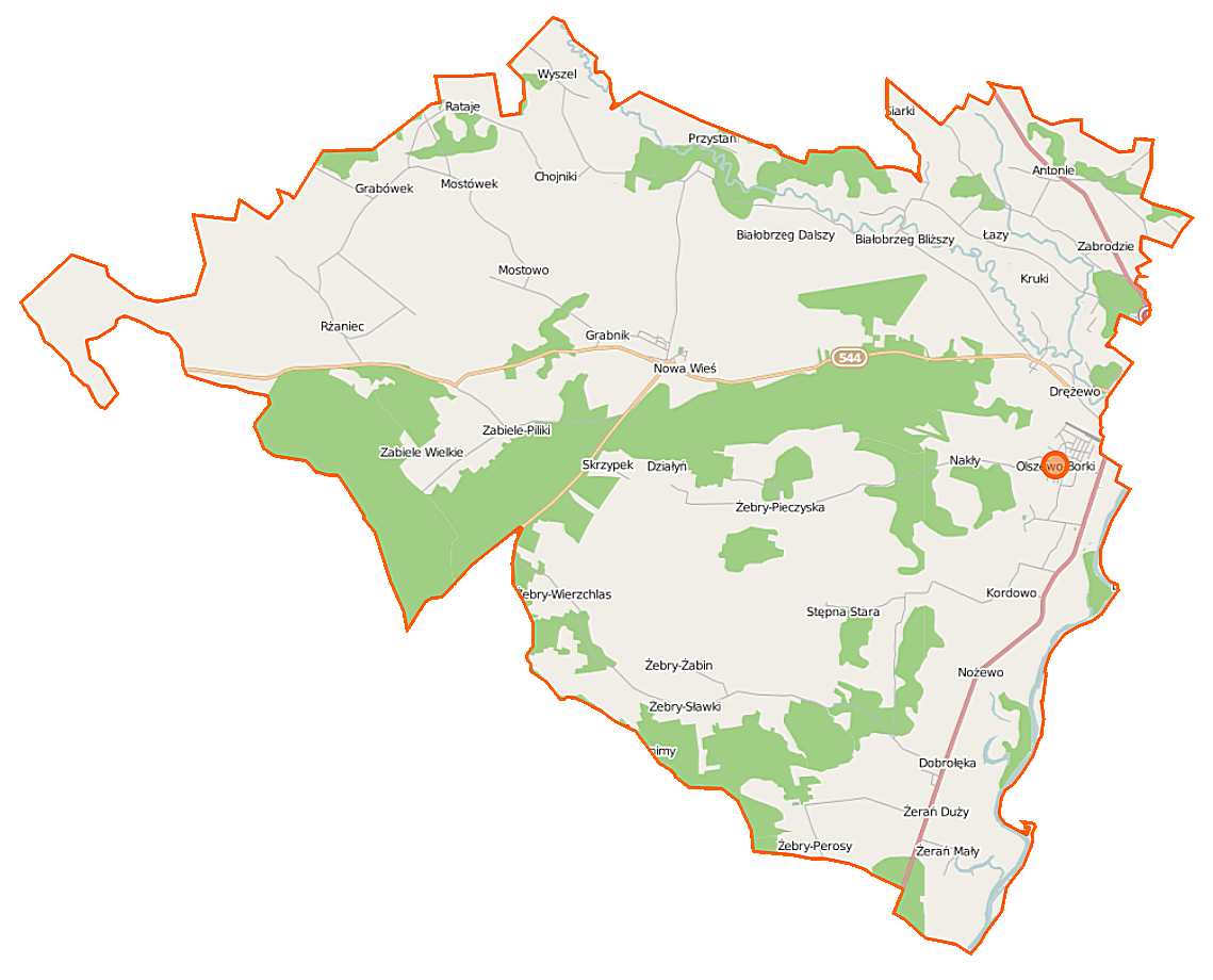 Map of Gmina Olszewo-Borki, Poland This map of Olszewo-Borki (gmina) was created from OpenStreetMap project data, collected by the community. This map may be incomplete, and may contain errors. Don't rely solely on it for navigation. Border coordinates53.147421.2218←↕→21.567552.9799